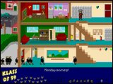 Retrospec allow all screenshots of all games to be used in the public domain. Category:ZX Spectrum game screenshots Klass of 99 by Retrospec